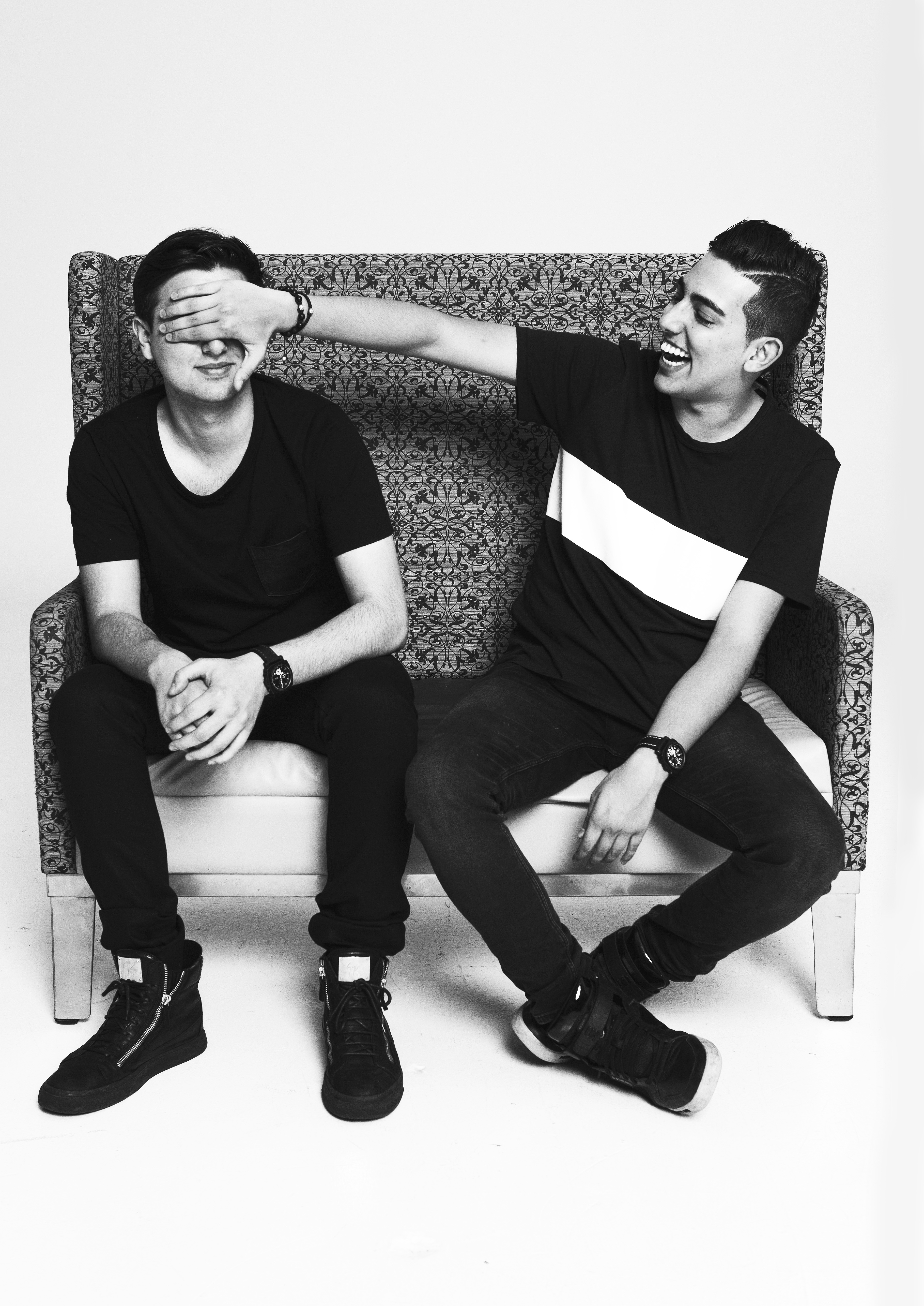 Dzeko & Torres photographed by Nikko La Mere